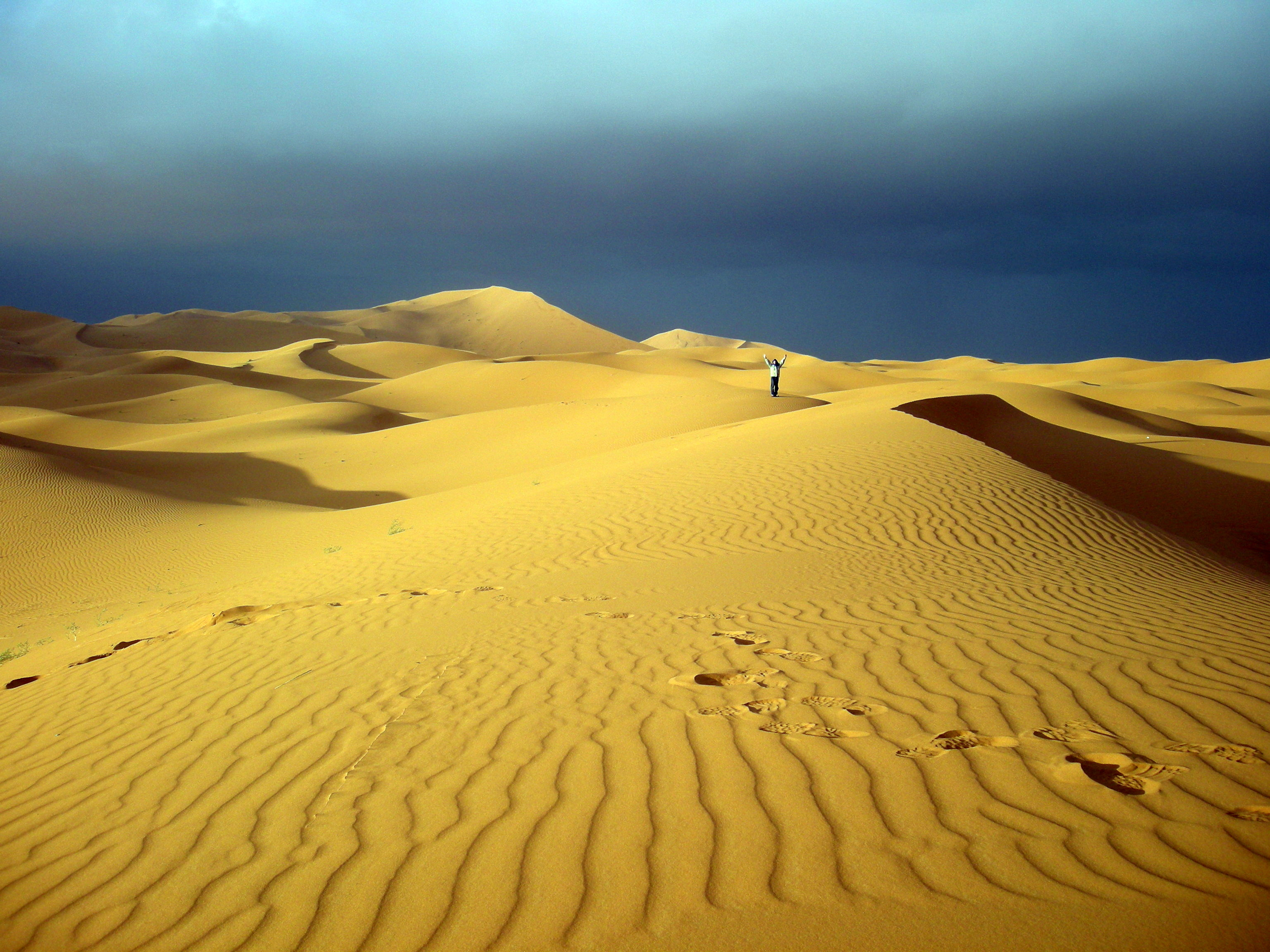 Dunes in the east of Merzouga, Morocco near the border to Algeria. Yellow light in Sahara desert. In the foreground are footprints in the sand. In the background on the dunes is a waving man. Evening, shadows on the dunes, the sky is almost dark blue.